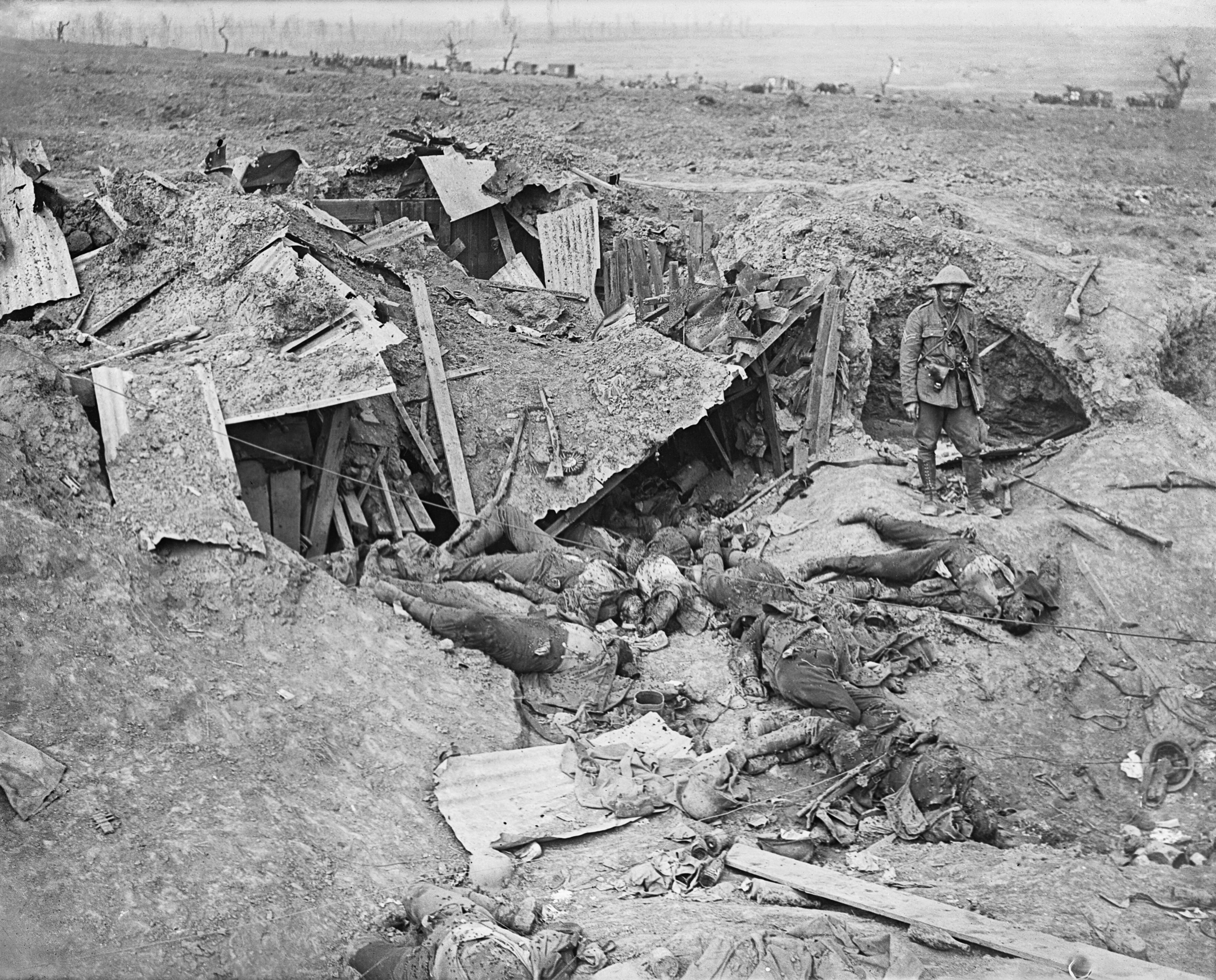 German dead in a trench and machine gun post near Guillemont during the Battle of the Somme, September 1916. See Battle of Guillemont.